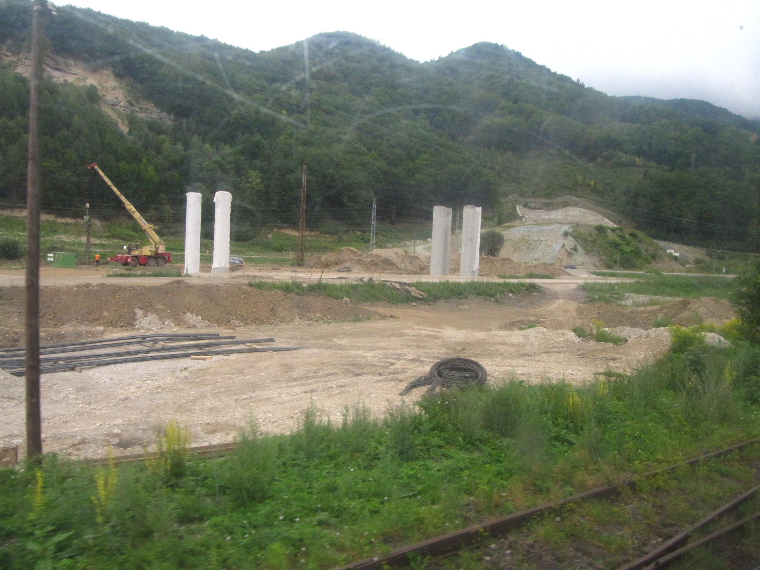 Work on the future eastern portal of the D1 highway tunnel Višňové in Northern Slovakia in August 2012. Photographed from a train.